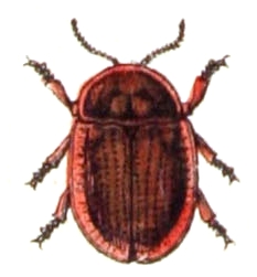 Cassida canaliculata, from Calwer's Käferbuch, Table 42, Picture 16. Taxonomy was updated to 2008, using mostly the sites Fauna Europaea and BioLib. Please contact Sarefo if the determination is wrong!